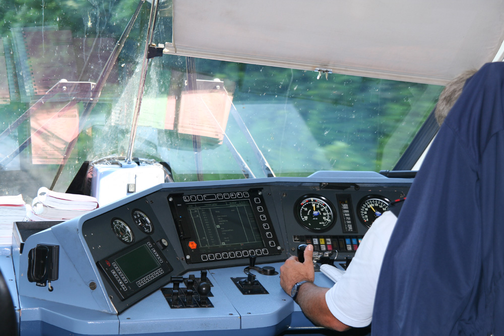 A locomotive engineer on a German InterCity train. This picture was taken through a closed glass door.